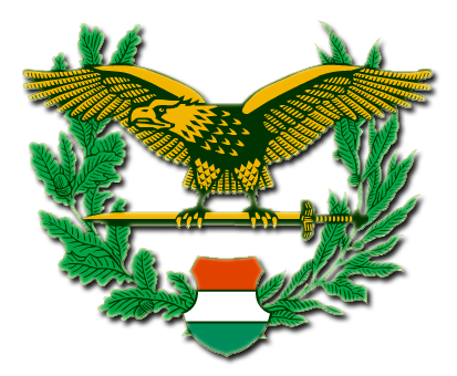 Logo of Hungarian Army